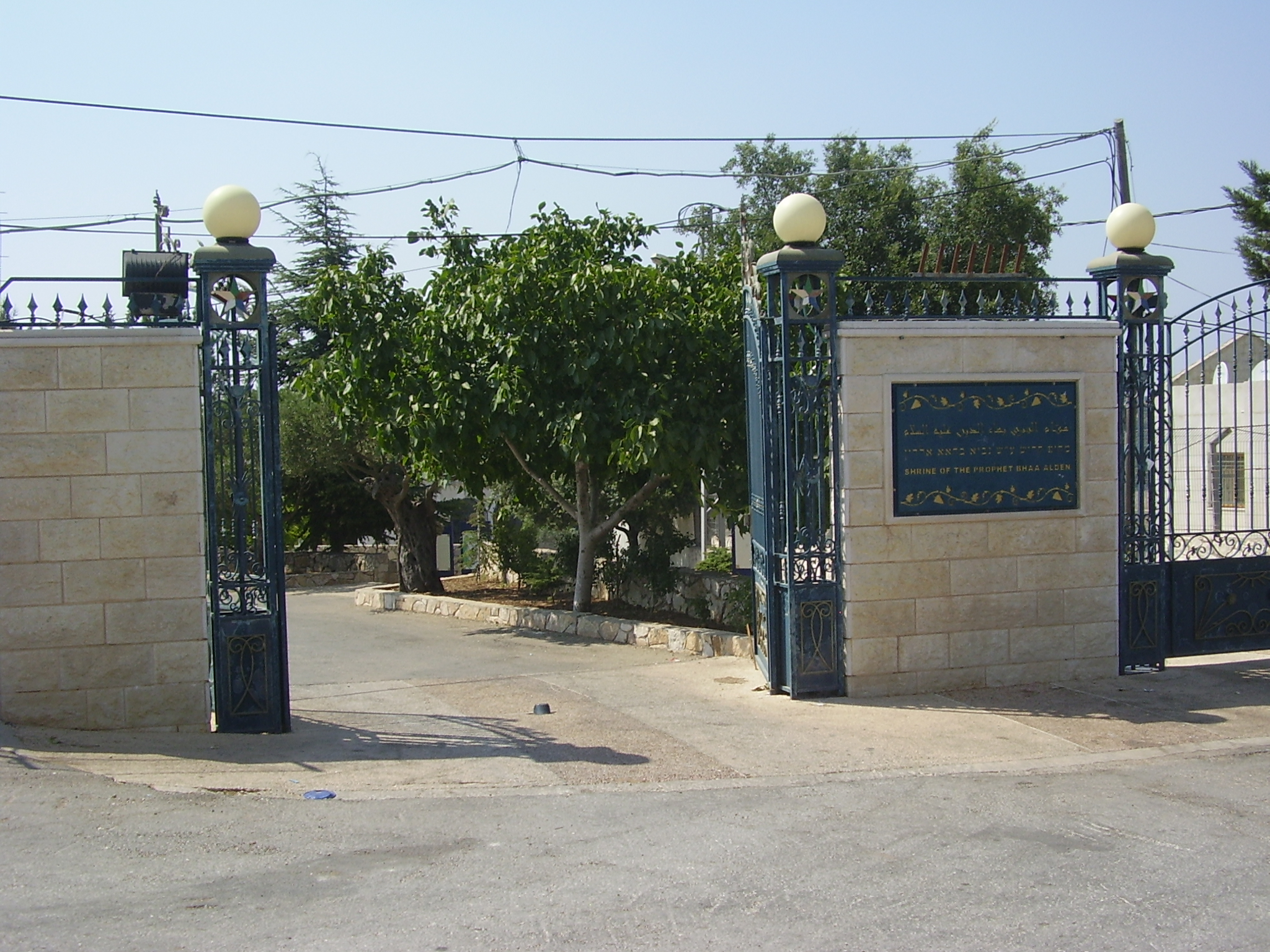 entrance to shrine of Baha' ad-Din, probably dedicated to the founding Druze leader of this name (a.k.a. Al-Muqtana Baha'uddin), in Beit Jann, Israel הכניסה למקאם בהא אלדין בבית ג'אן